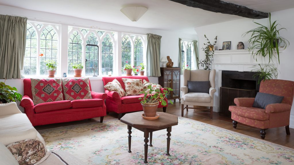 The Abbey, Sutton Courtenay, Oxfordshire, England